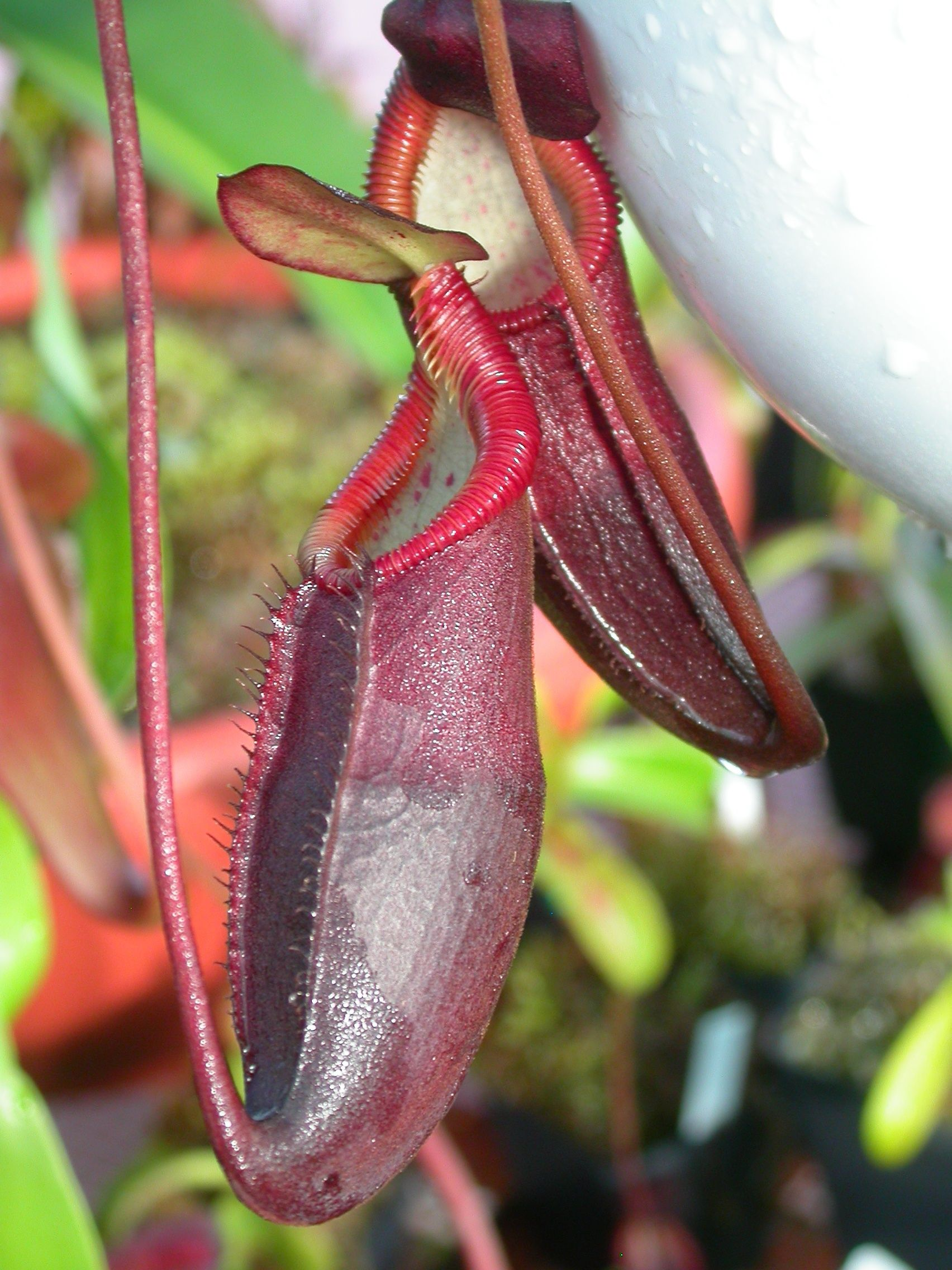 Cultivated N. diatas.-Jeremiah